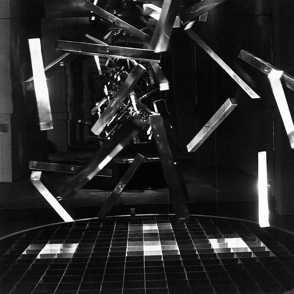 Photograph of a Picture by Diet Sayler